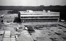 Construction of the Main Library UMK, Torun, Poland on May 1970 - photo by Bohdan Olechnicki - ref. f-1583